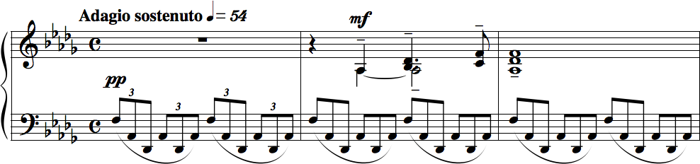 A section in Six Moments Musicaux, No. 5. The piece, composed by Sergei Rachmaninoff in 1896 was published before 1923, and thus is in the public domain.